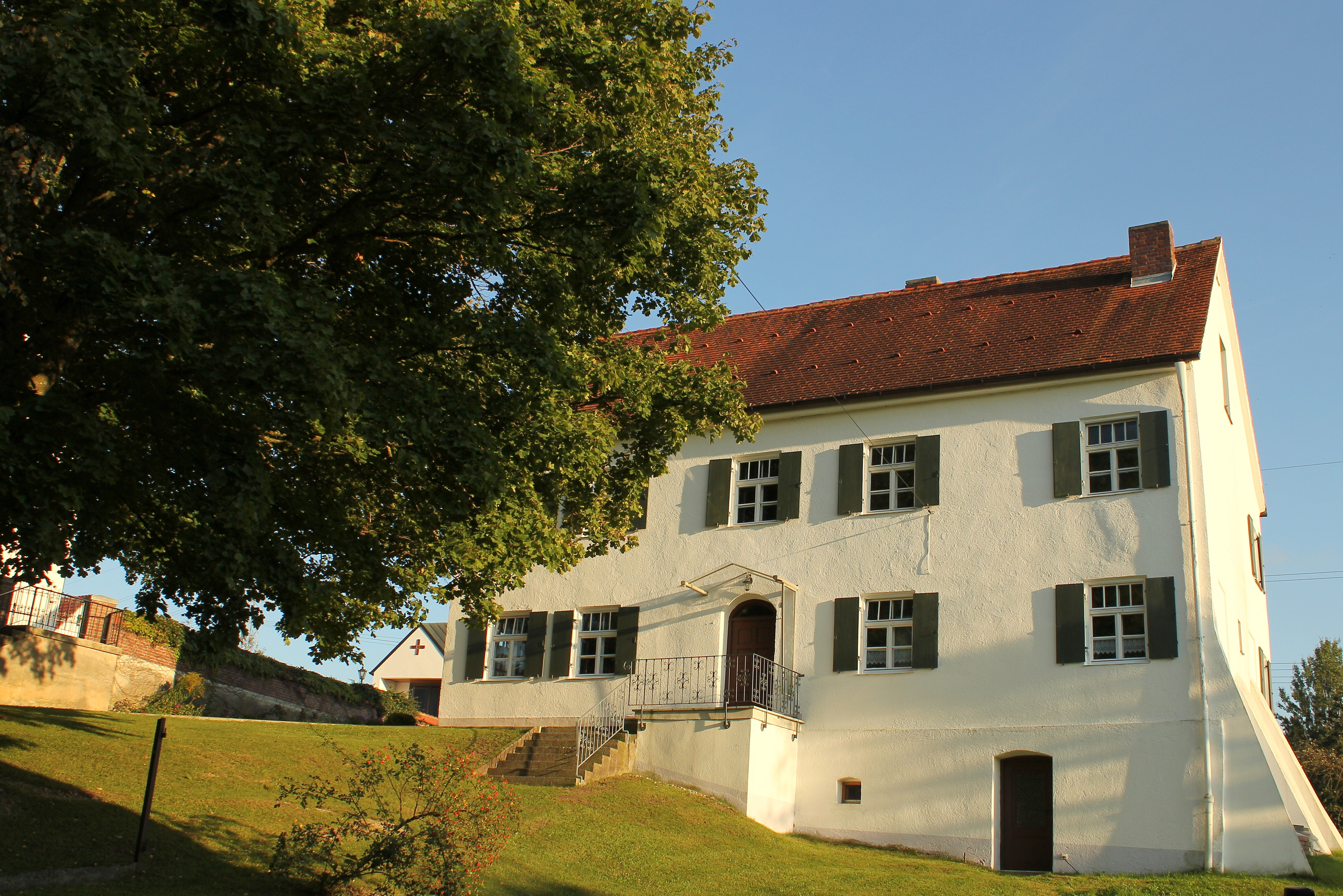 This is a photograph of an architectural monument.